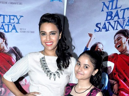 Swara Bhaskar and Ria Shukla promote their movie Nil Battey Sannata